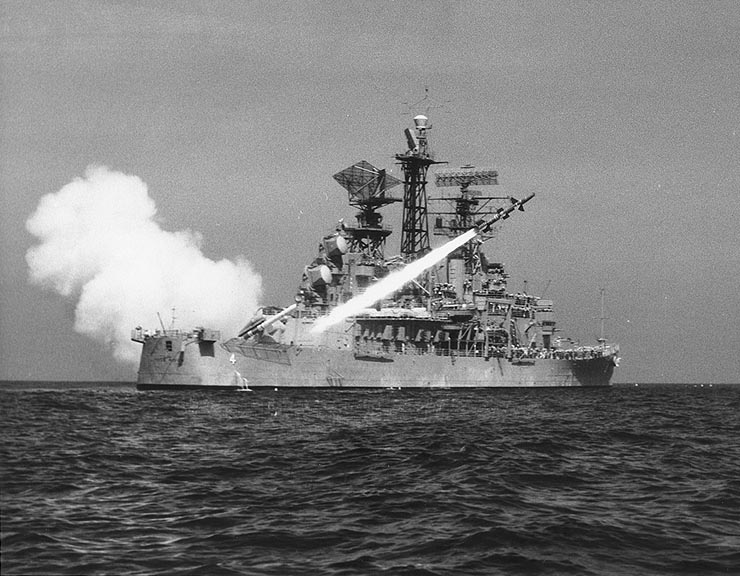 The U.S. Navy guided missile cruiser USS Little Rock (CLG-4) fires a RIM-8 Talos guided missile, during exercises in the Mediterranean Sea, 4 May 1961. Note her massive AN/SPS-2 radar.